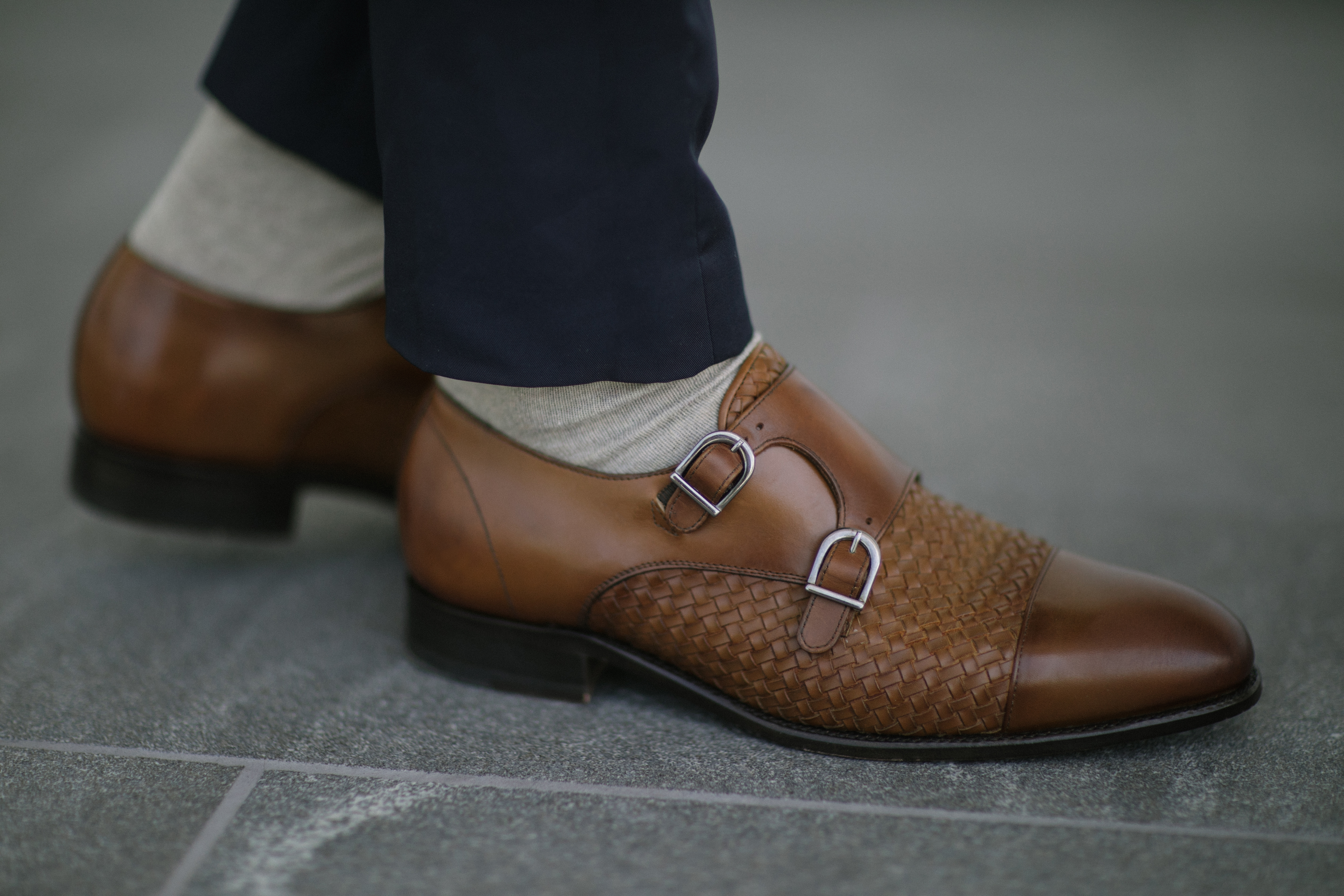 Taft's Lucca Monk Shoe